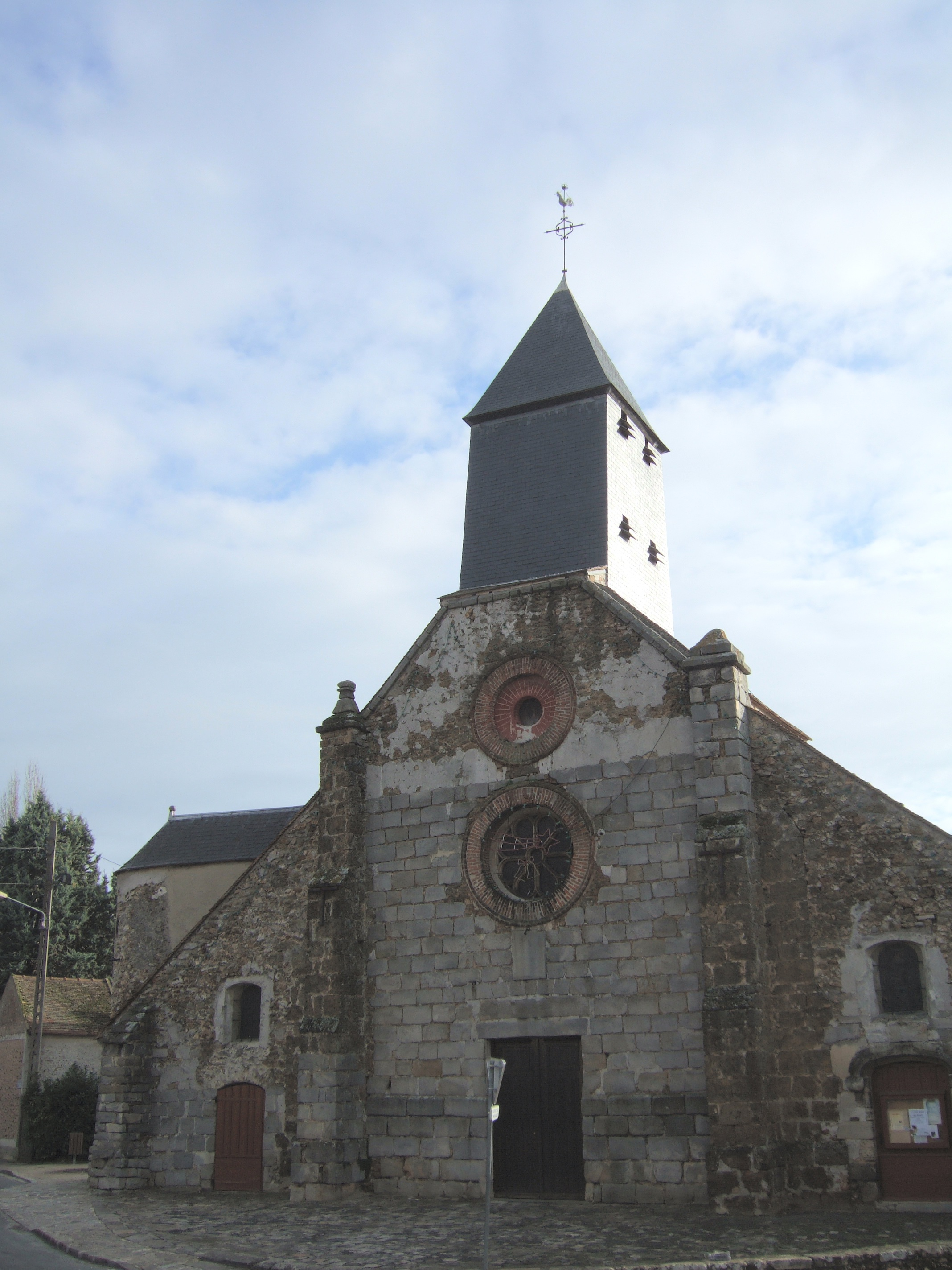 Saint Jean Baptiste Church. Leuville-sur-Orge. France